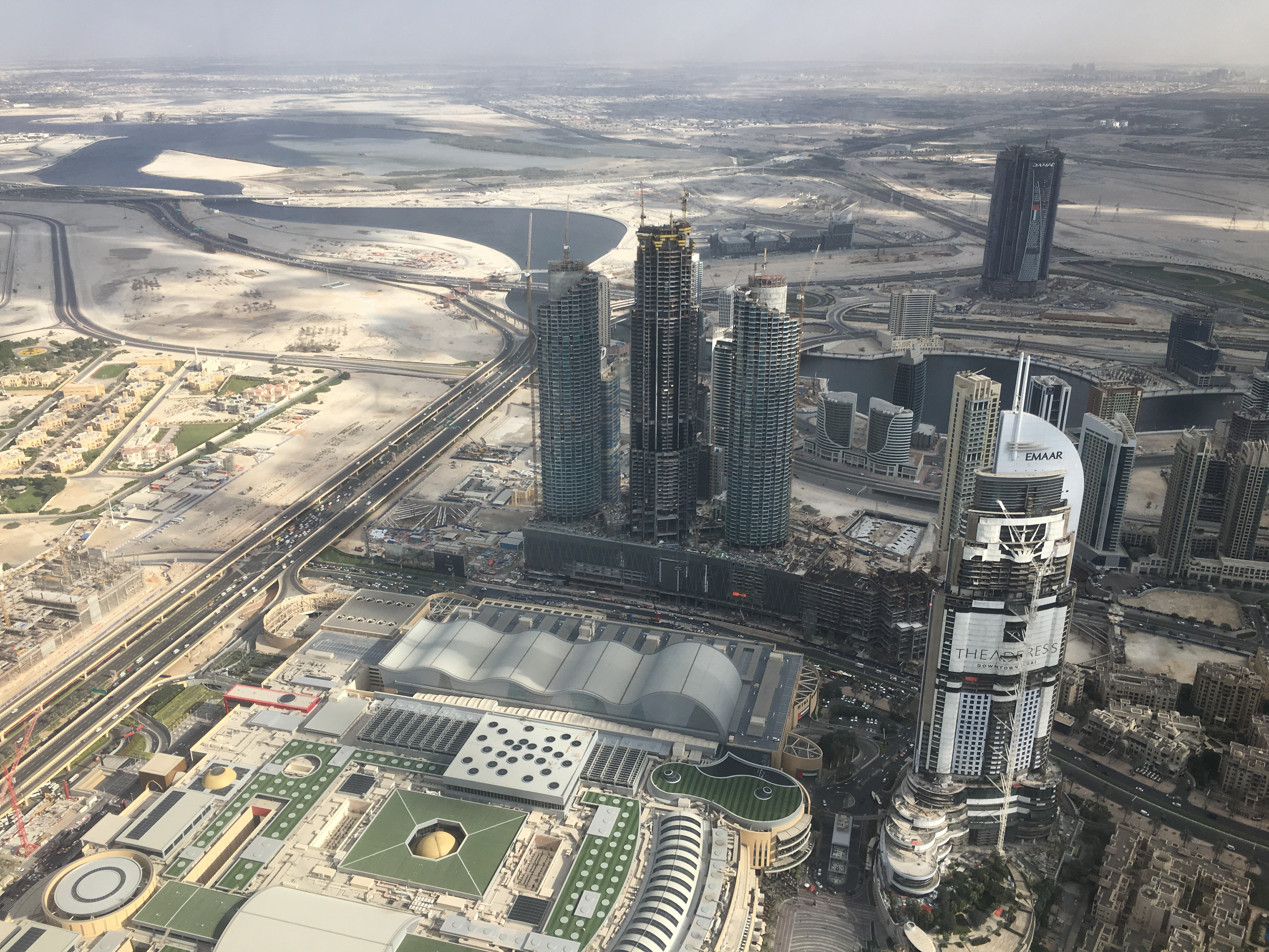 A view from the top